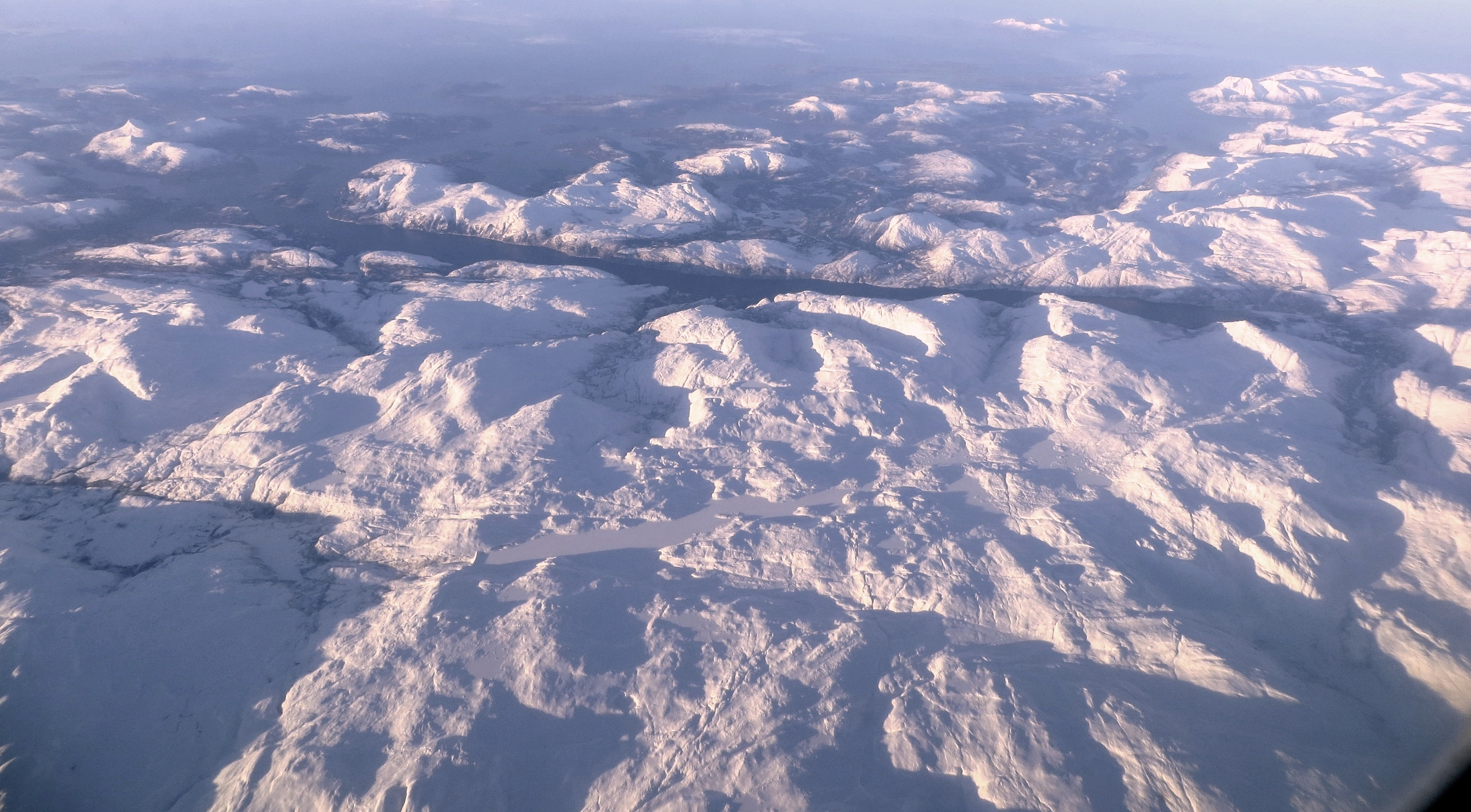 Aerial view from the east towards west, of Bindal municipality in Nordland county, Norway.